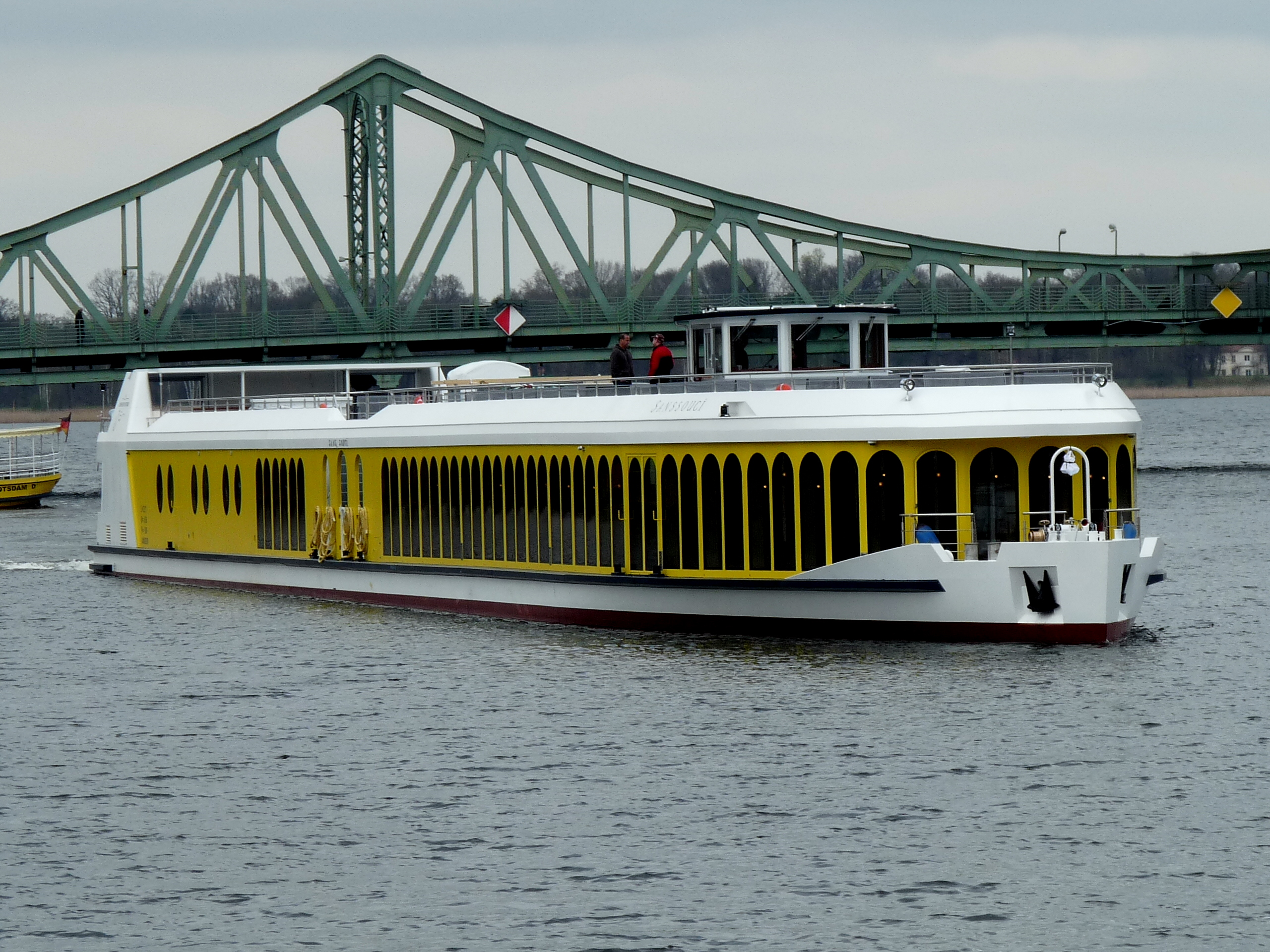 The new builded passenger ship of Weiße Flotte Potsdam named Sanssouci in front of Glienicker Brücke.